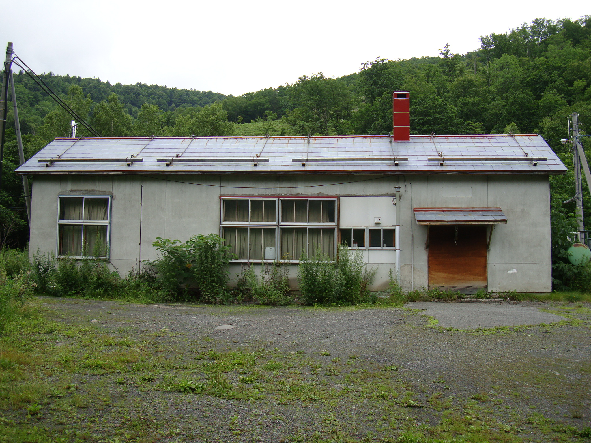 Nakakoshi Signal Base